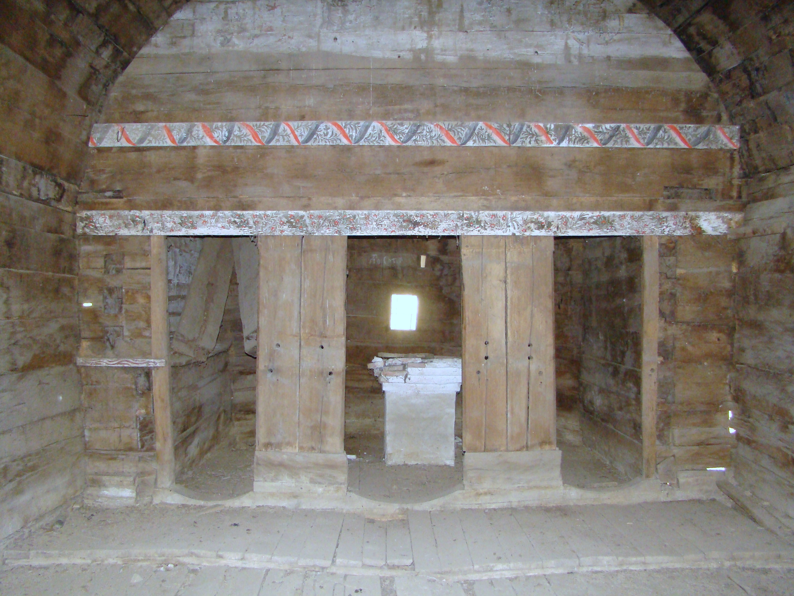 Wooden church in Căpățânești, Mehedinți county, Romania